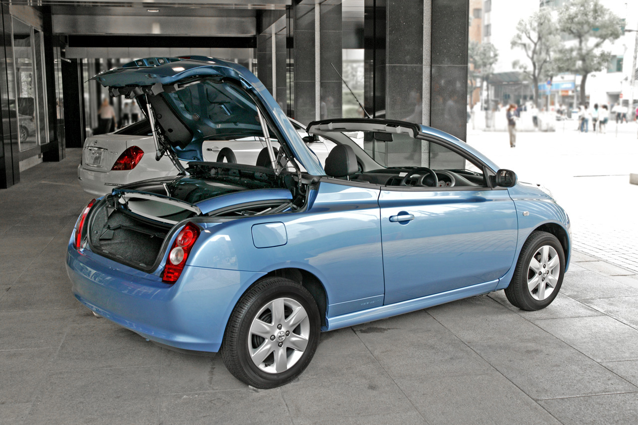 Nissan Micra CC folded roof and boot